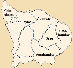 Provinces of the Apurímac region in Peru (Map)